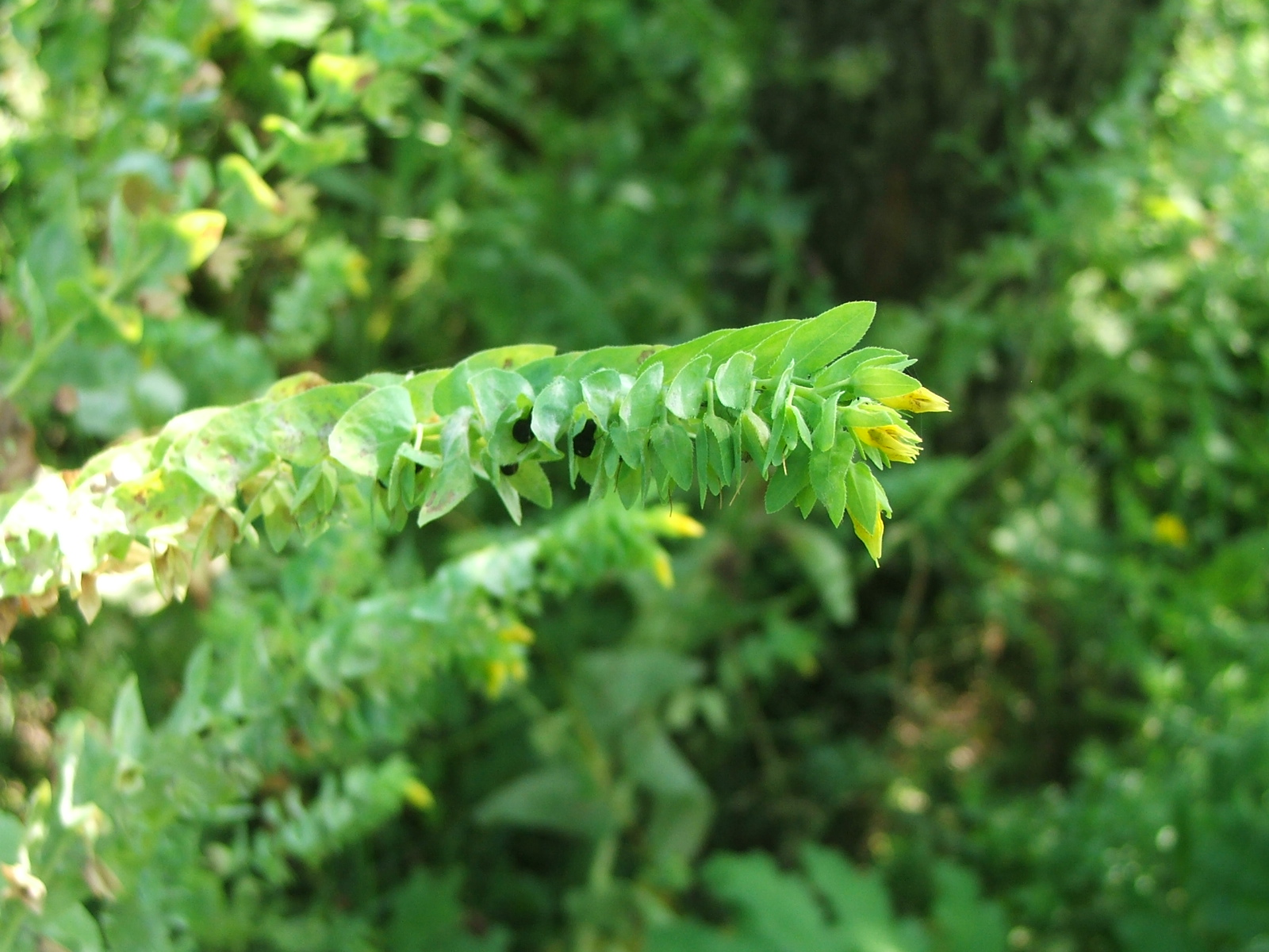 Cerinthe minor - Hollókő, Hungary